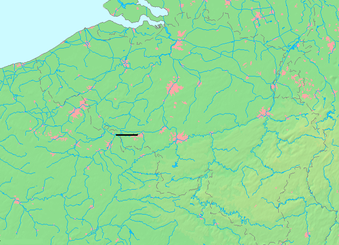 Location of a waterway (river/canal) in Belgium